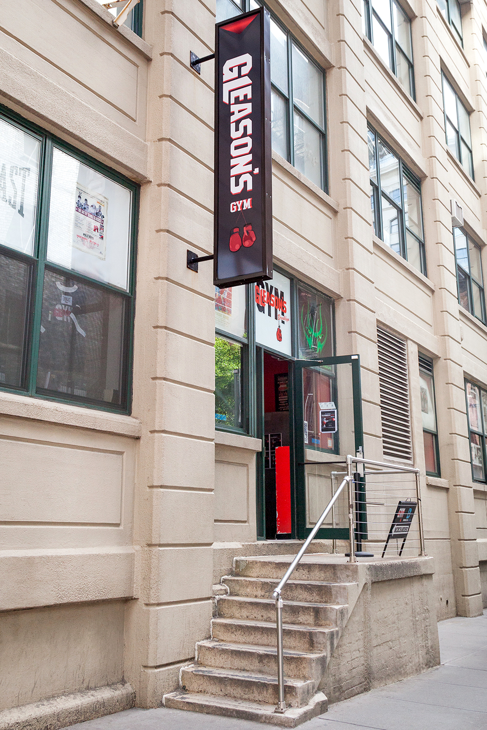 Gleason's Gym, 130 Water Street, Brooklyn NY (Photo gallery of DUMBO, Brooklyn)